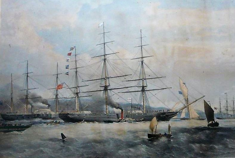 Schomberg 1855, Colour Lithograph by T. G. Dutton. Ship on her maiden voyage at Liverpool